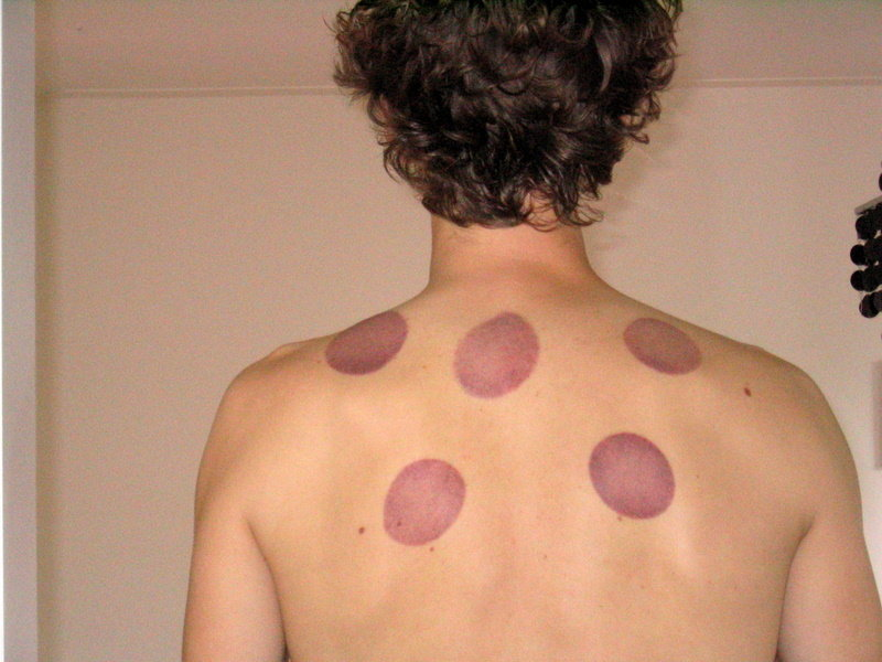 Circular cupping marks on back, 1 day after treatment. These marks faded away in about 8 days.